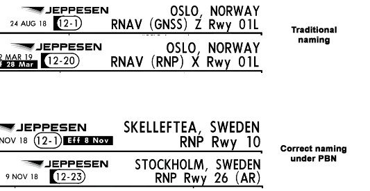 The upper two chart strips show the current norm, while the two strips below reflect the same two approaches only with the new correct PBN-naming. ICAO member states are currently working on changing the designation. Sweden is one example of a member state who has already adopted to the new correct RNP-designation.